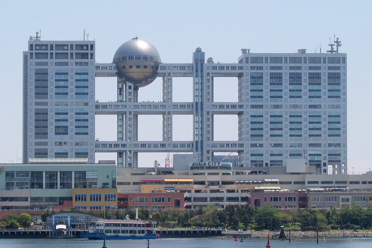 The distinctive Fuji Television headquarters. The lower-rise building in the foreground is Aqua City Odaiba, a large complex of waterfront shopping and entertainment. Taken from a boat approaching Odaiba around midday on May 3, 2006. Photograph by Mark J. Nelson. Edited by defchris